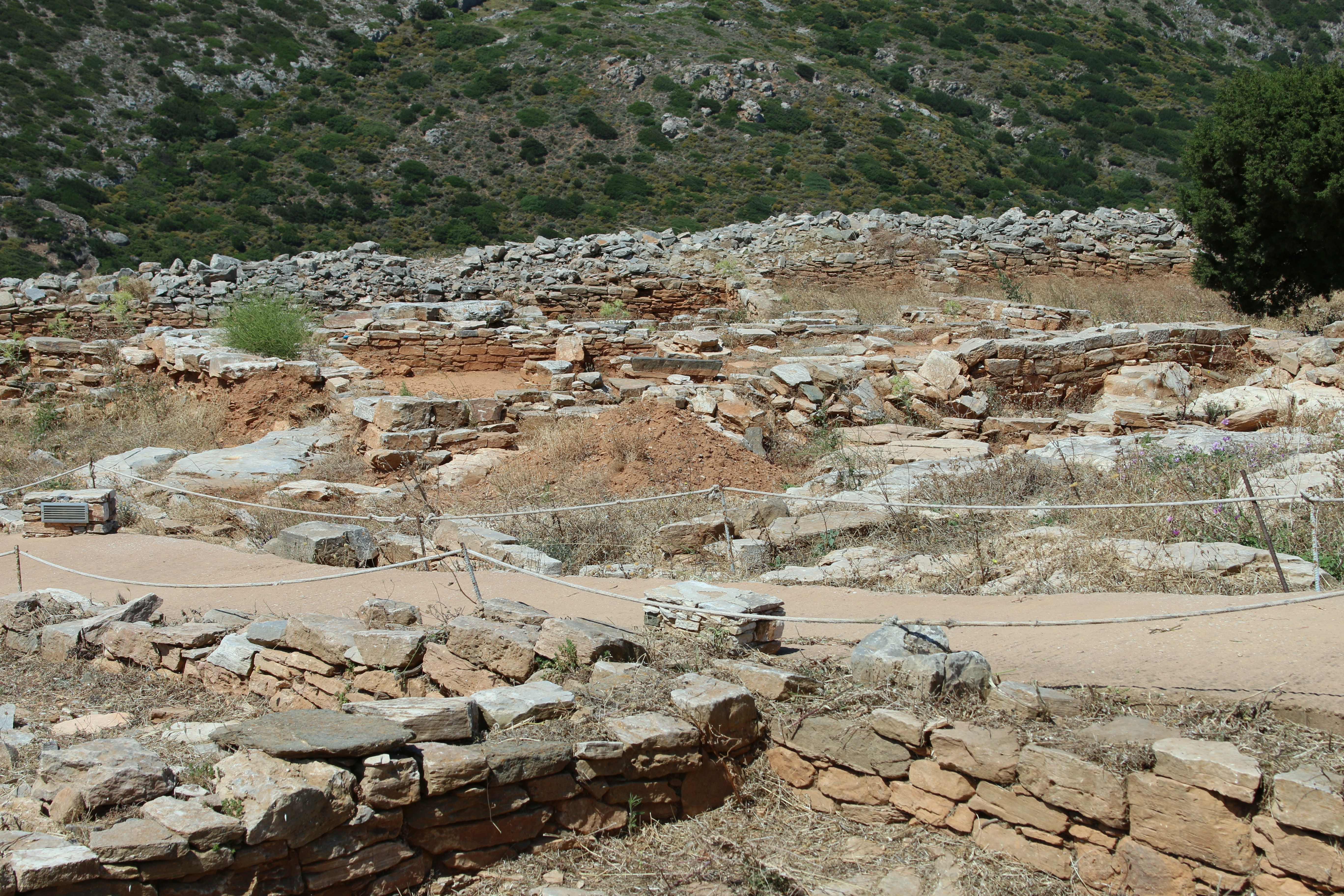 Remnants of the sanctuary, Ancient Greek times. In the background is southern part of the Mycenaean wall. Archaeological site at Ag. Andreas on Sifnos.